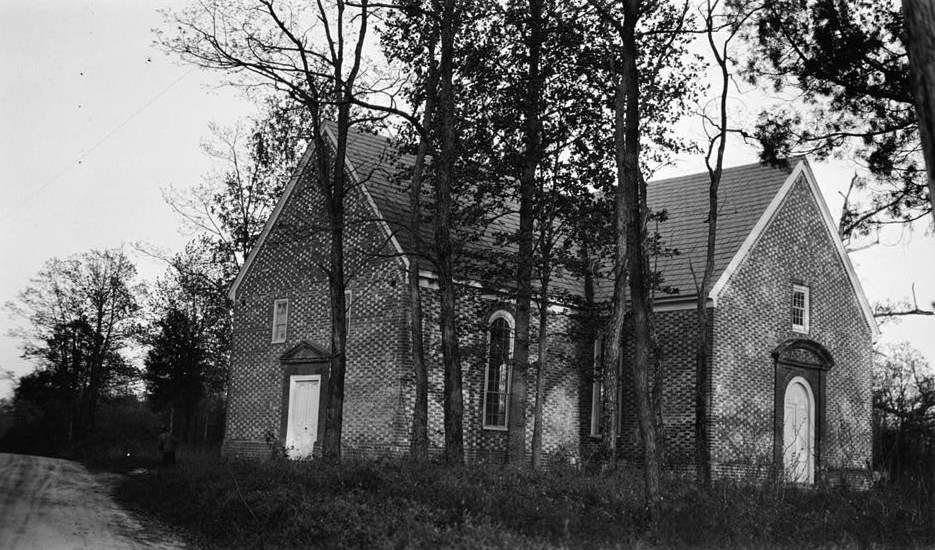 Old St. John's Church, State Route 30 vicinity, West Point vicinity (King William County, Virginia) cropped This file comes from the Historic American Buildings Survey (HABS), Historic American Engineering Record (HAER) or Historic American Landscapes Survey (HALS). These are programs of the National Park Service established for the purpose of documenting historic places. Records consist of measured drawings, archival photographs, and written reports. When reusing please credit: Library of Congress, Prints & Photographs Division, VA,51-WESPO.V,1-1 This tag does not indicate the copyright status of the attached work. A normal copyright tag is still required. See Commons:Licensing. This work is in the public domain in the United States because it is a work prepared by an officer or employee of the United States Government as part of that person’s official duties under the terms of Title 17, Chapter 1, Section 105 of the US Code. Note: This only applies to original works of the Federal Government and not to the work of any individual U.S. state, territory, commonwealth, county, municipality, or any other subdivision. This template also does not apply to postage stamp designs published by the United States Postal Service since 1978. (See § 313.6(C)(1) of Compendium of U.S. Copyright Office Practices). It also does not apply to certain US coins; see The US Mint Terms of Use. This file has been identified as being free of known restrictions under copyright law, including all related and neighboring rights.